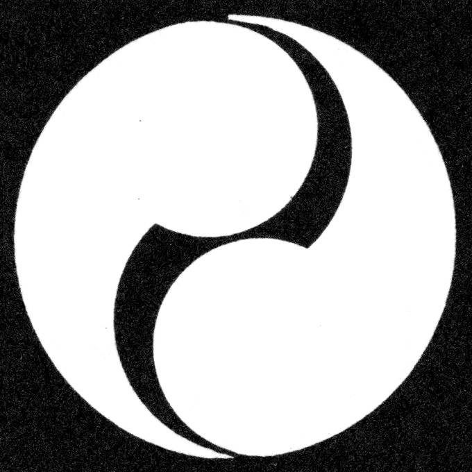 Japanese Crest: Twofold Tomoe rightt